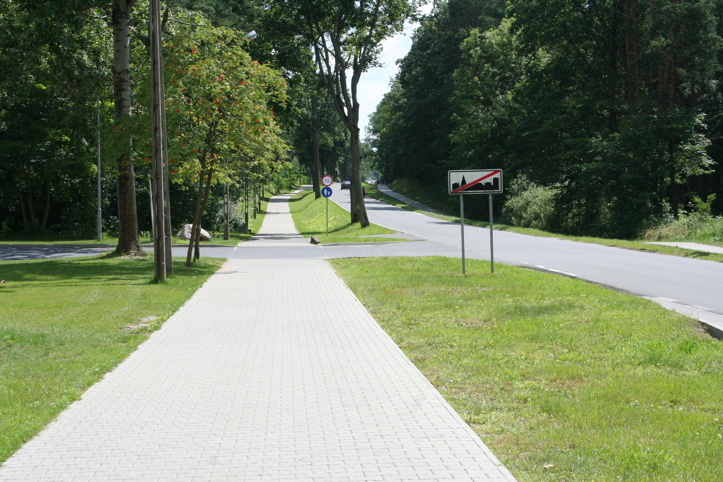 Poznańska street in Sieraków